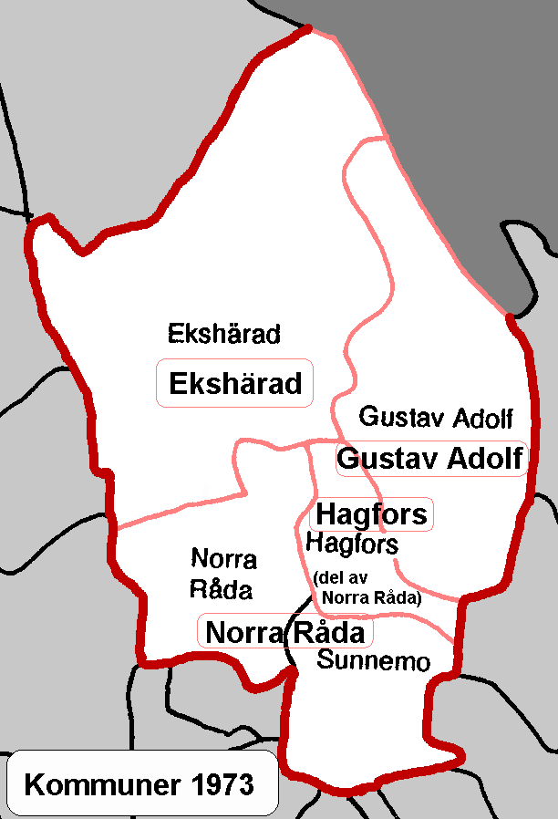 map of old municipalities in hagfors